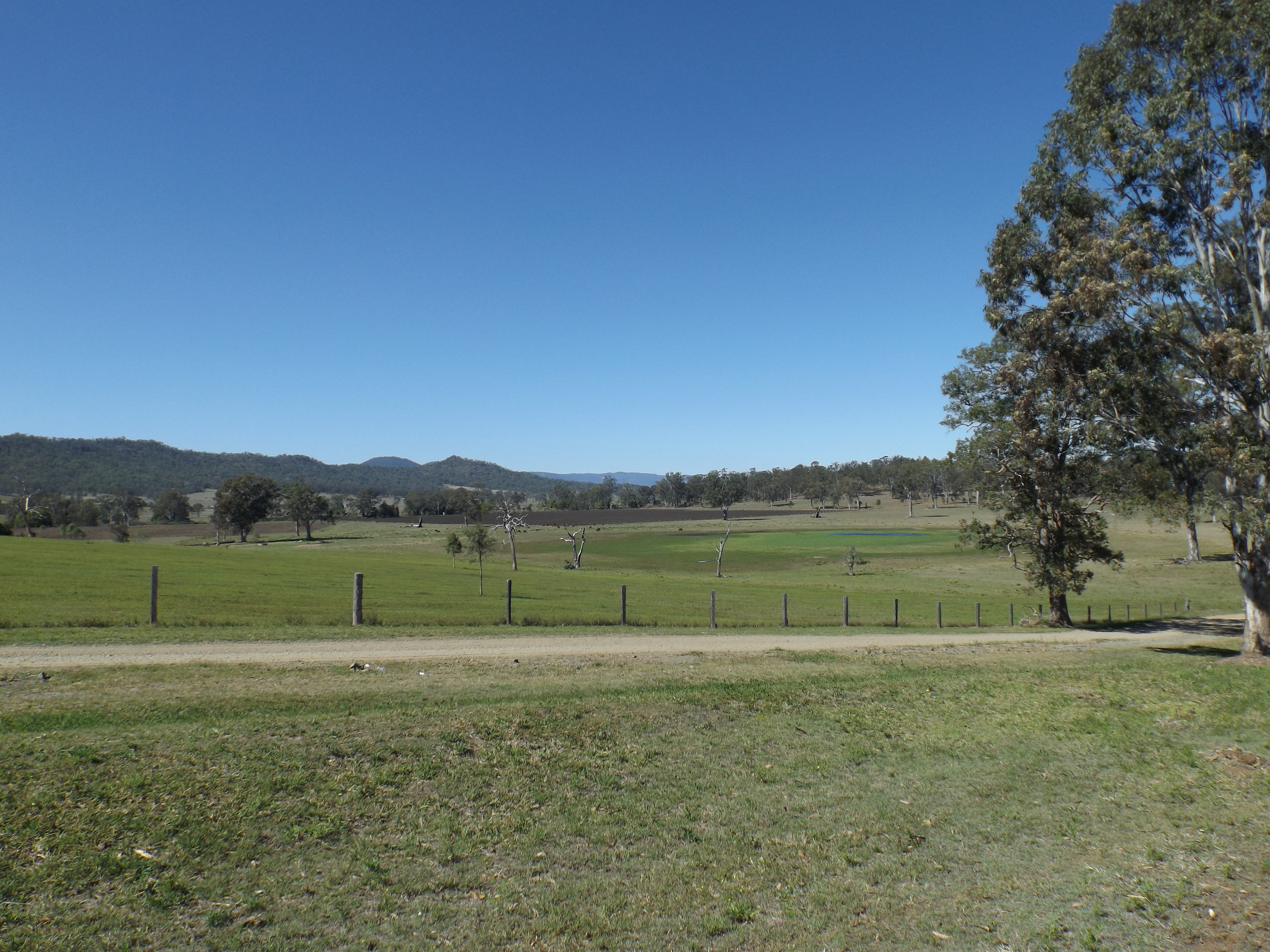 Photo of Paddocks at Birnam, Scenic Rim Region, Queensland, Australia.